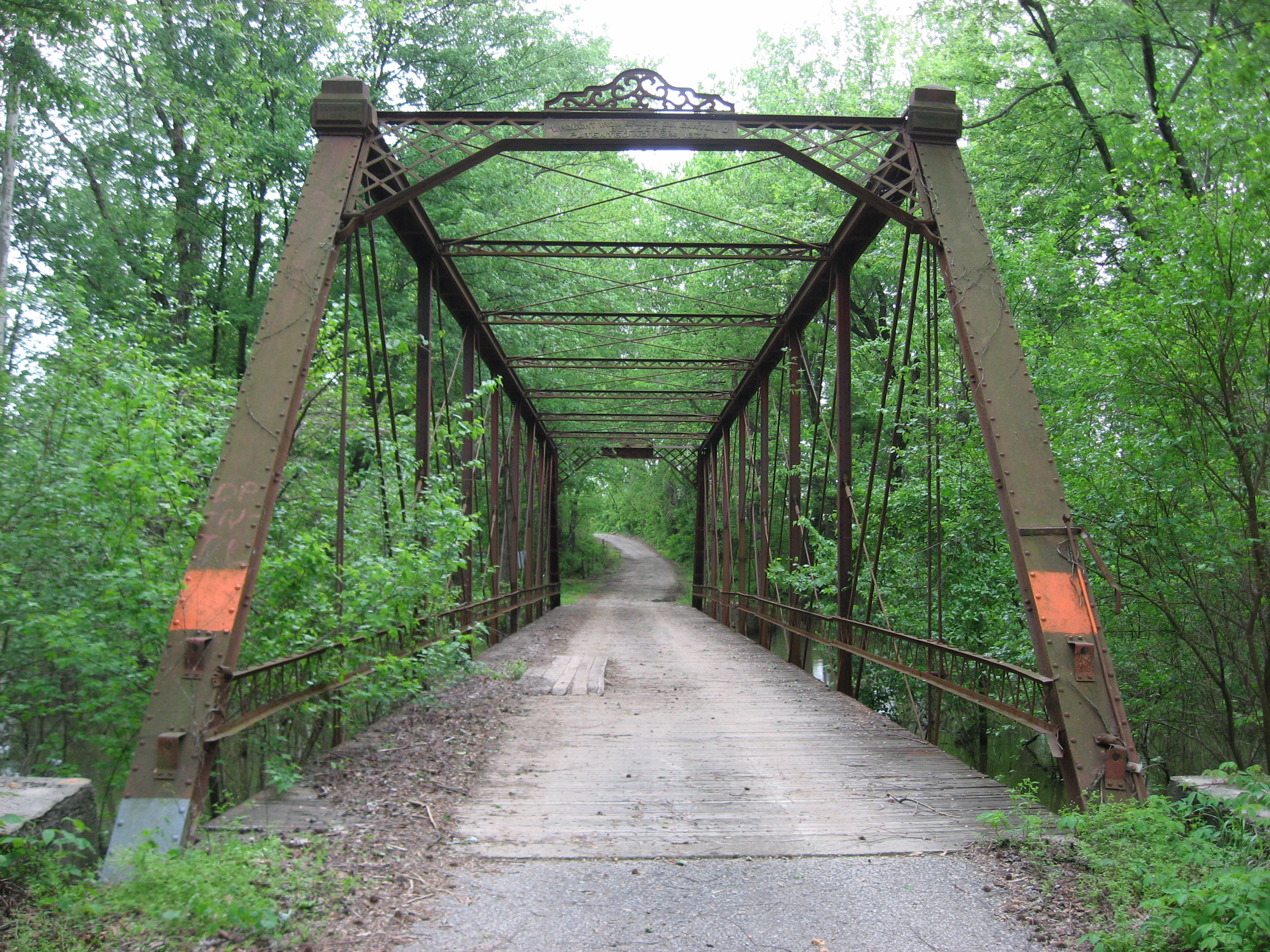 Northern portal of Bridge 246, which carries County Road 300E over the Patoka River north of Oakland City across the border between Gibson and Pike counties in the U.S. state of Indiana. Built in 1884, it is (along with the road and another bridge to the north) listed on the National Register of Historic Places as part of the Patoka Bridges Historic District.